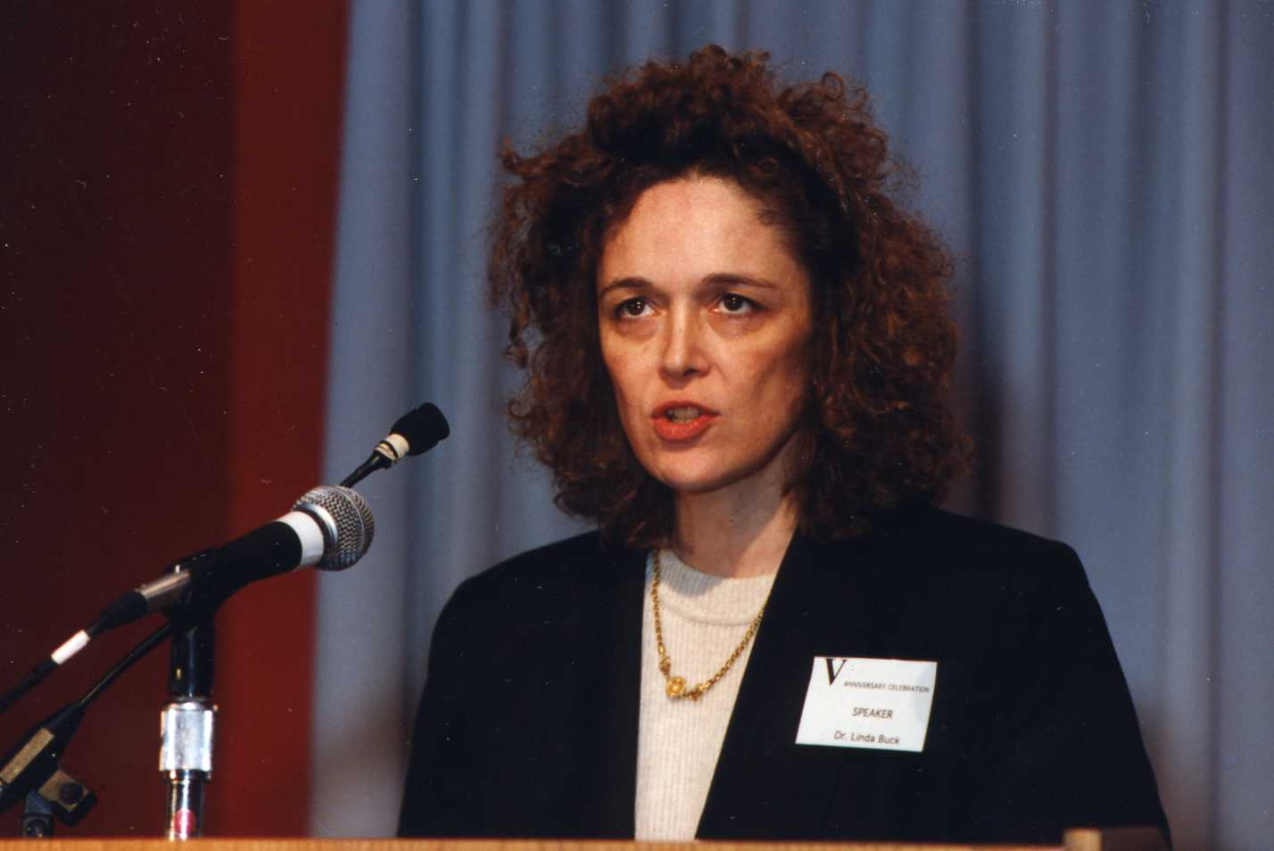 Linda Buck, Ph.D. addressing the 5th Anniversary symposium of the National Institute of Deafness and Other Communication Disorders (NIDCD), National Institutes of Health (NIH), Bethesda MD, U.S.A.